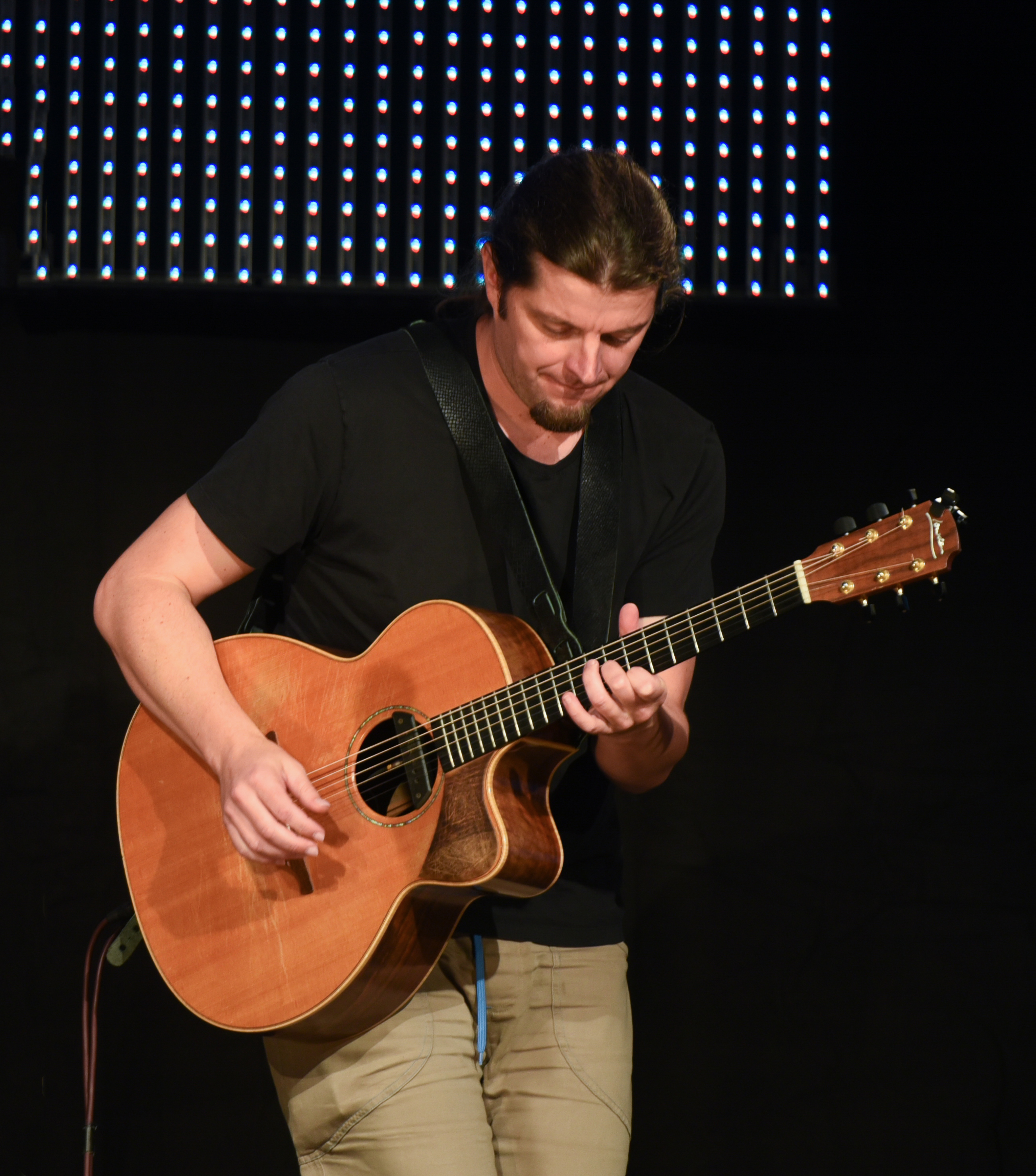 Thomas Leeb playing at Hamburger Gitarrenfestival 2018